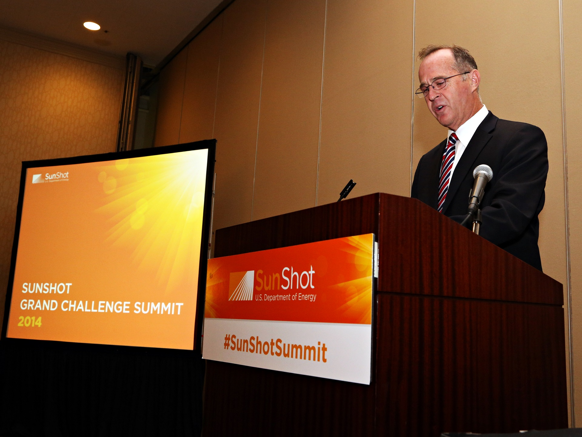 Anaheim Mayor Tom Tait speaking at the opening session. Photo Credit: SunShot Initiative